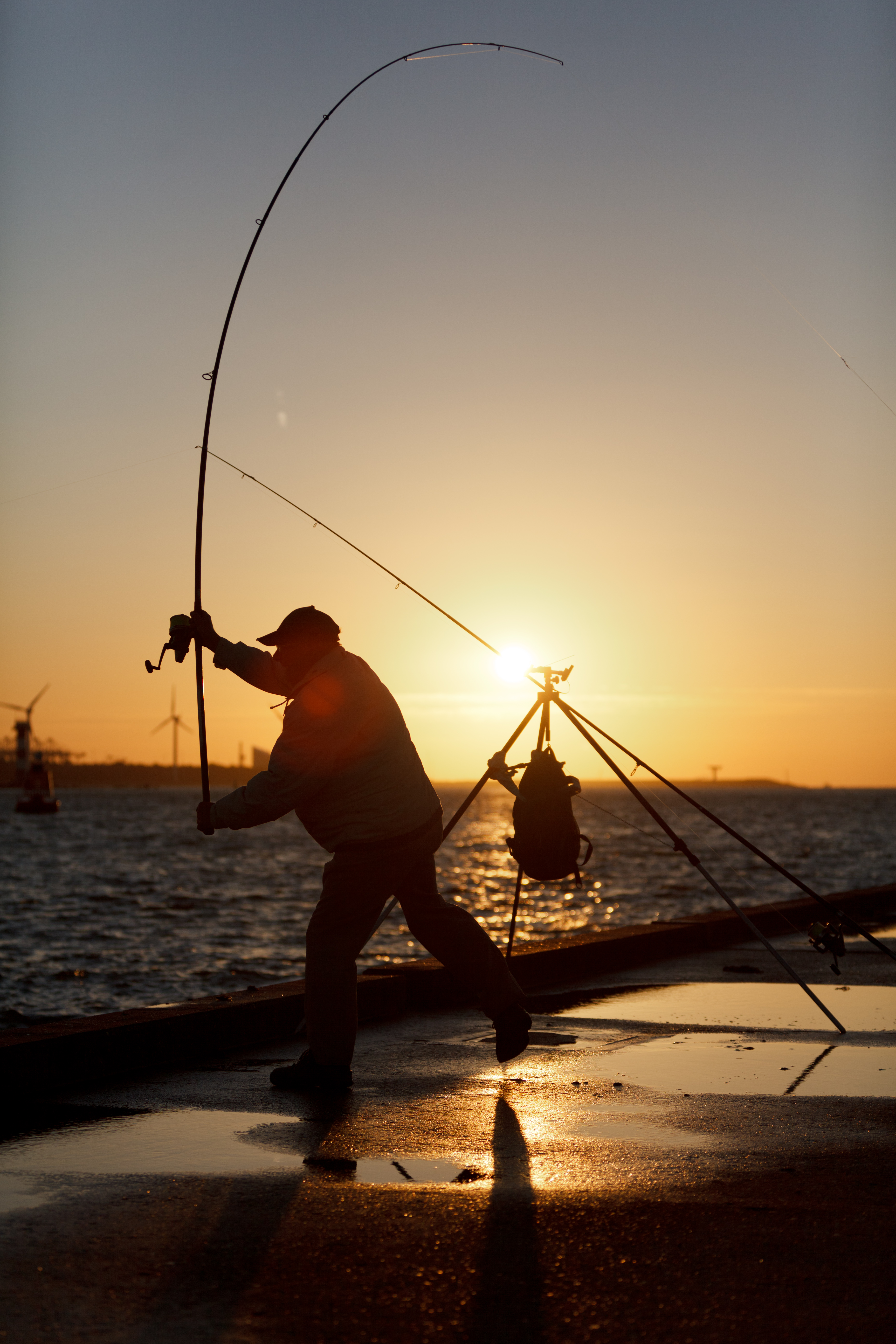 [320/365] The fisherman